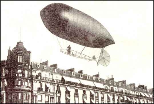 Brazilian aviation pioneer Alberto Santos-Dumont with his No. 18 "floatplane", never completed